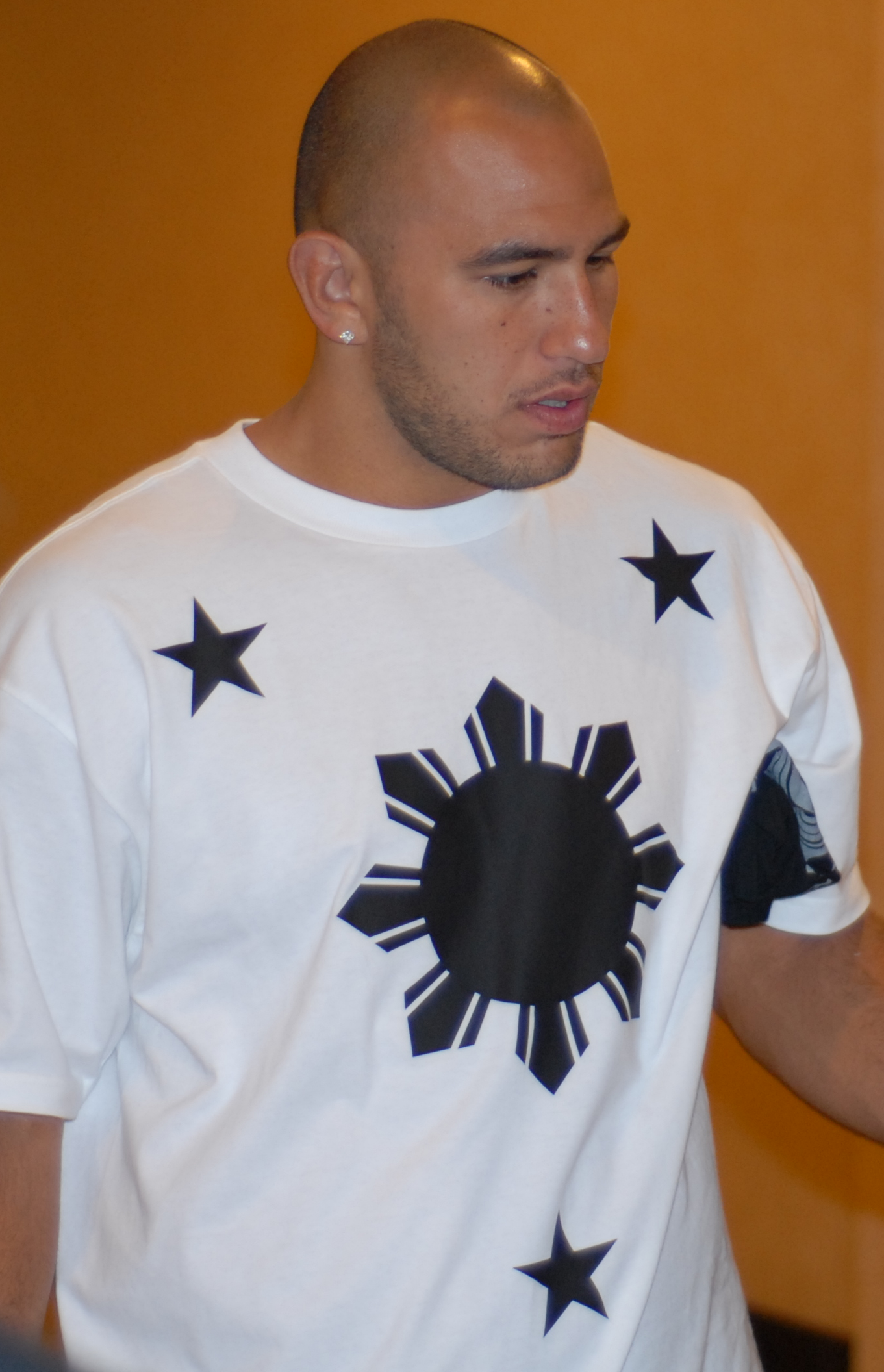 Brandon Vera, a mixed martial artist.